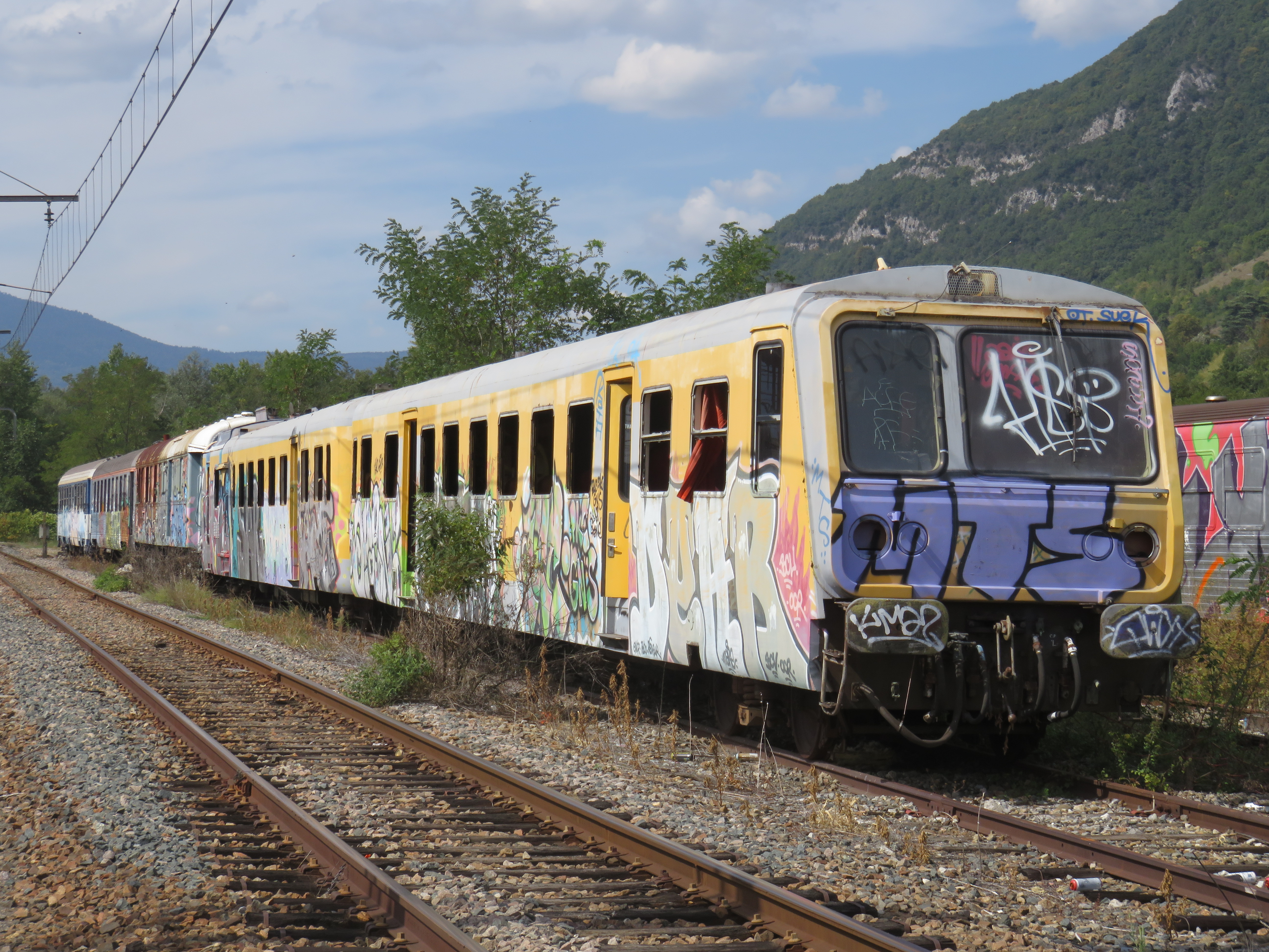 A X 2720 (X 2731, formelly used on the Train touristique de l'Ardèche méridionale) parked at the scrapyard of Culoz (Ain, France) on September 9, 2018.